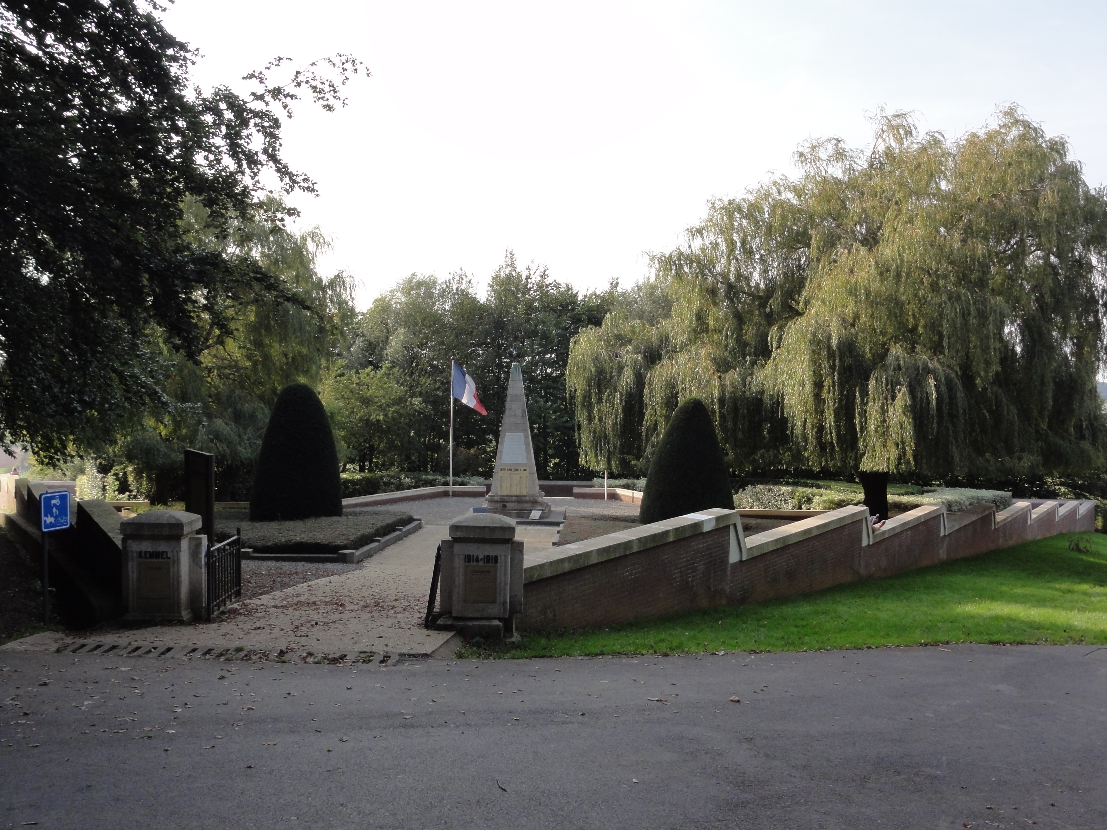 French mass grave on the Kemmelberg in Kemmel. Kemmel, Heuvelland, West Flanders, Belgium